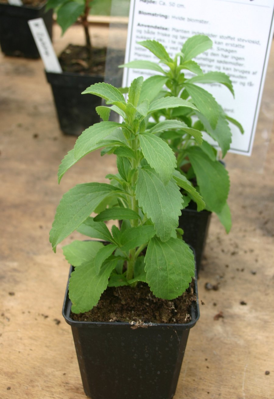 Stevia rebaudiana, cultivated under glass in Denmark.